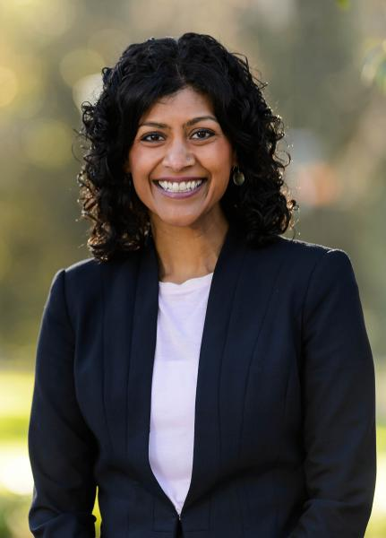 Photograph of Victorian Greens leader Samantha Ratnam